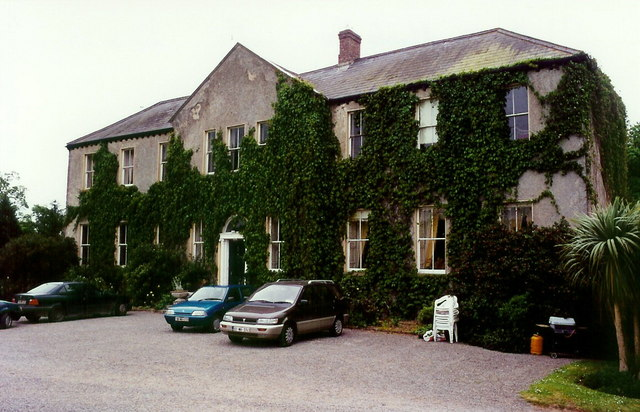 Dardistown Castle, County Meath Victorian period remodelling of a c. 1760 front to a medieval castle.